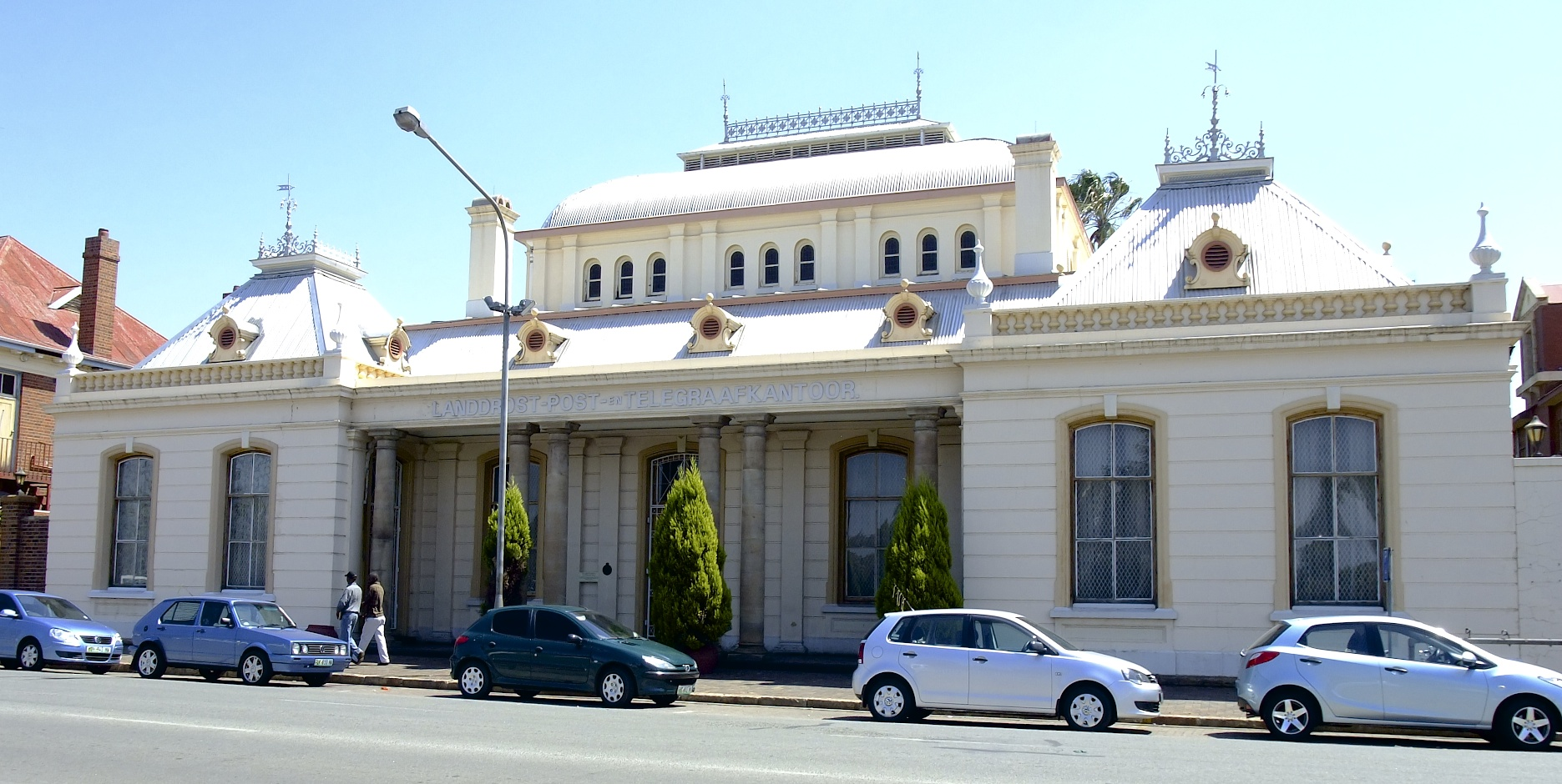 Old Post Office, Greyling Street, Potchefstroom This media shows a South African Protected Site with SAHRA file reference 9/2/256/0012.